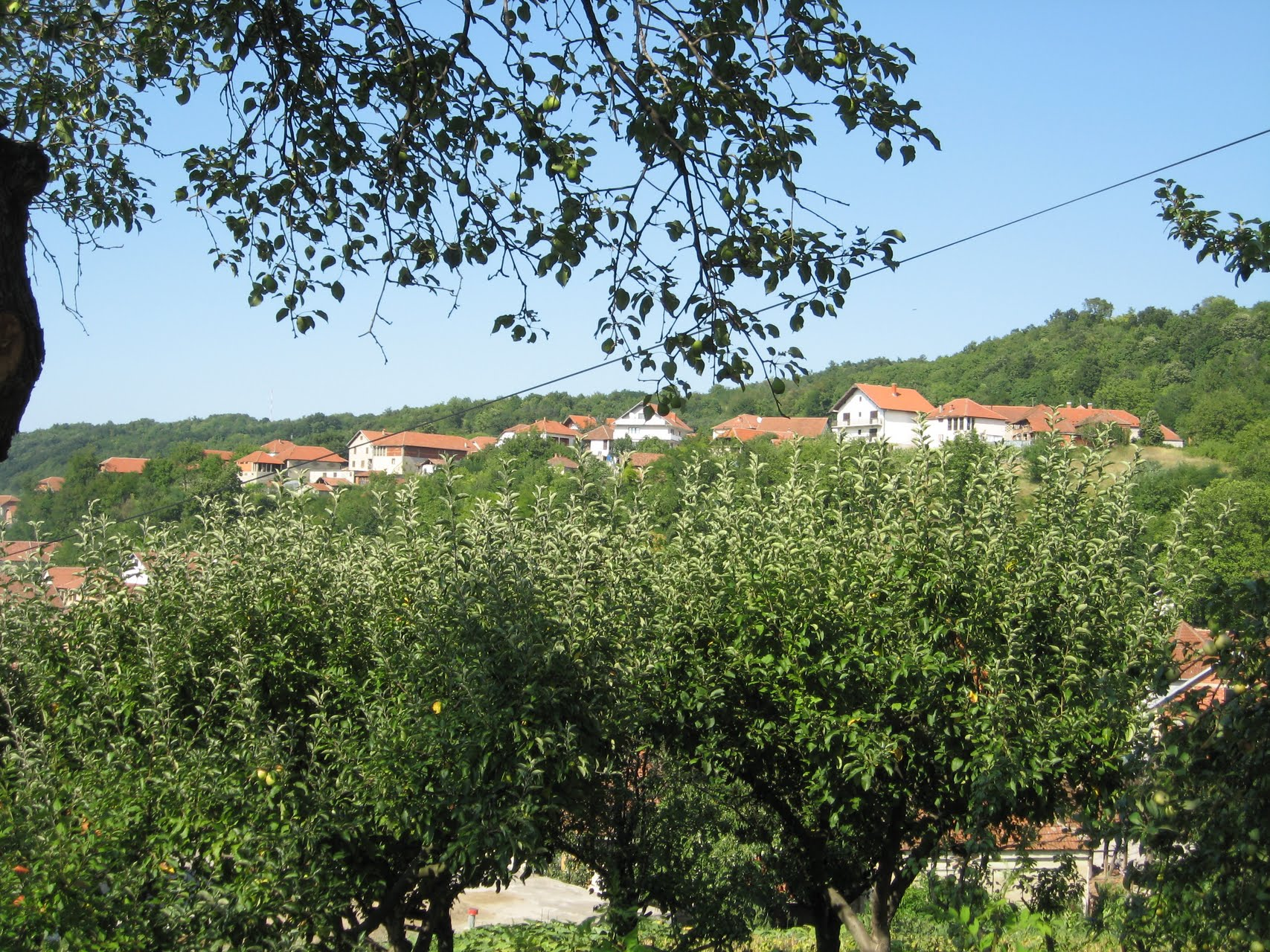 View of Aleksandrovac,Negotin,Central Serbia